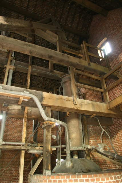 Replica Newcomen engine, Black Country Living Museum This is as close to the original as possible but with a modern welded steel boiler. The cylinder is brass, the beam and framing are largely wood and much of the plumbing lives up to its name, being in lead.